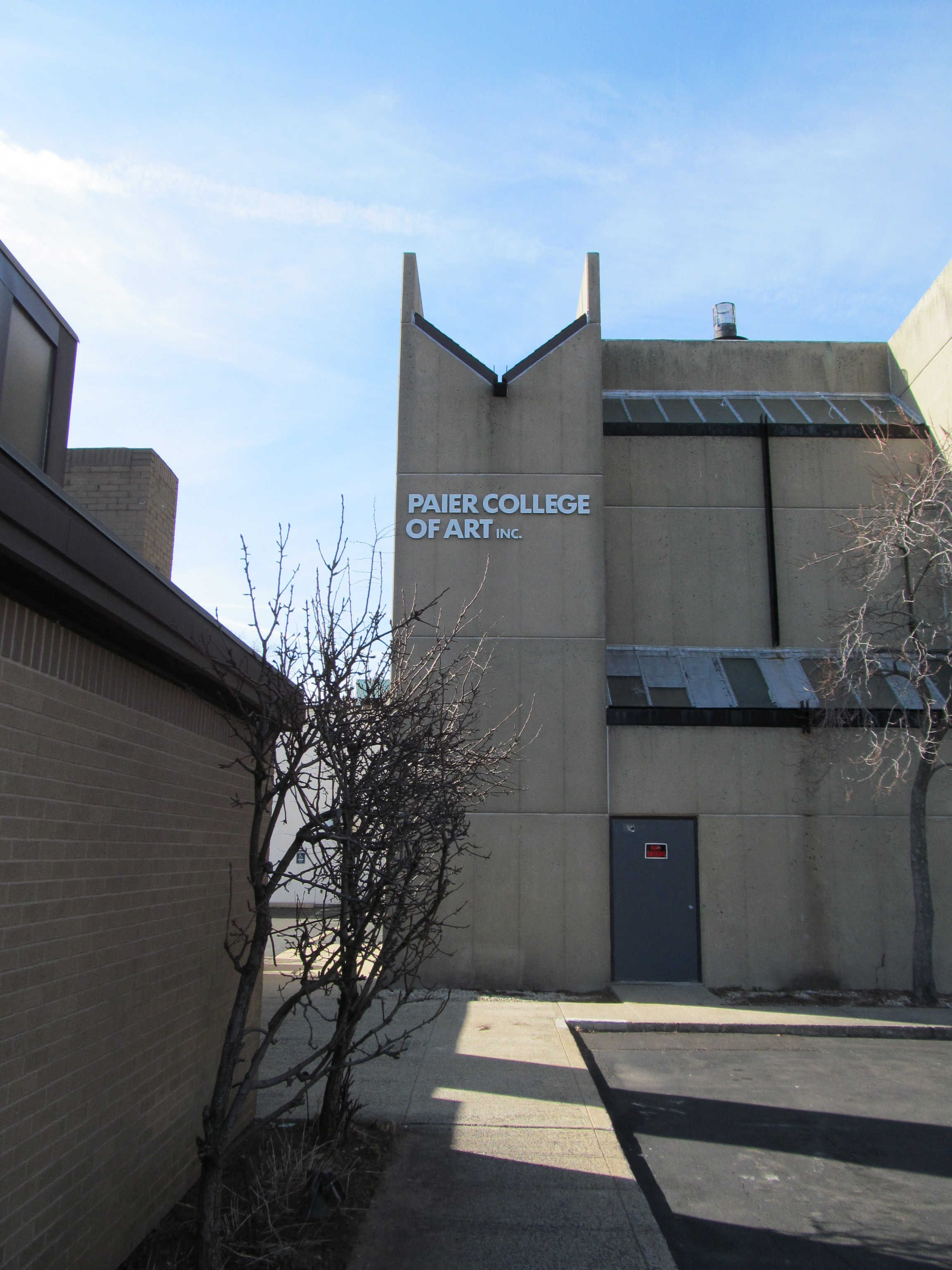 Paier College of Art, Hamden Connecticut